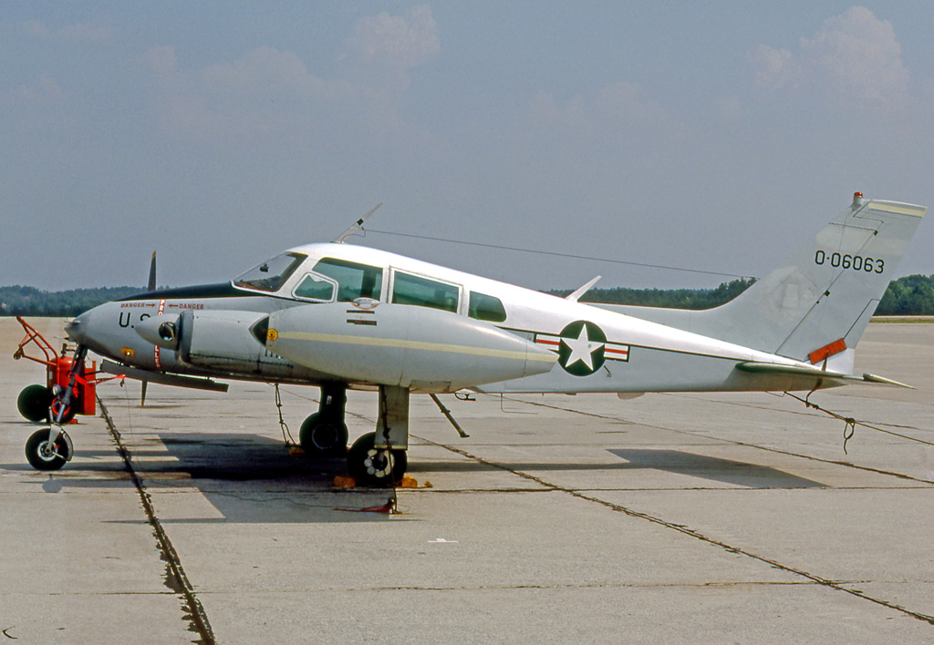 Cessna U-3B Blue Canoe 60-6063 of the US Army in 1976